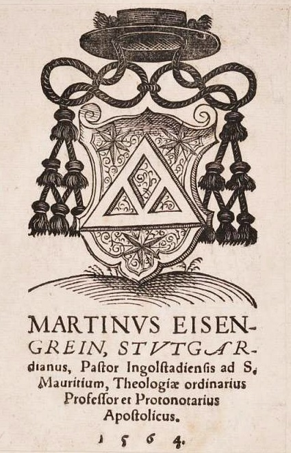 Wappen des kath. Priesters und Theologen Martin Eisengrein (1535-1578) als Apostolischer Protonotar